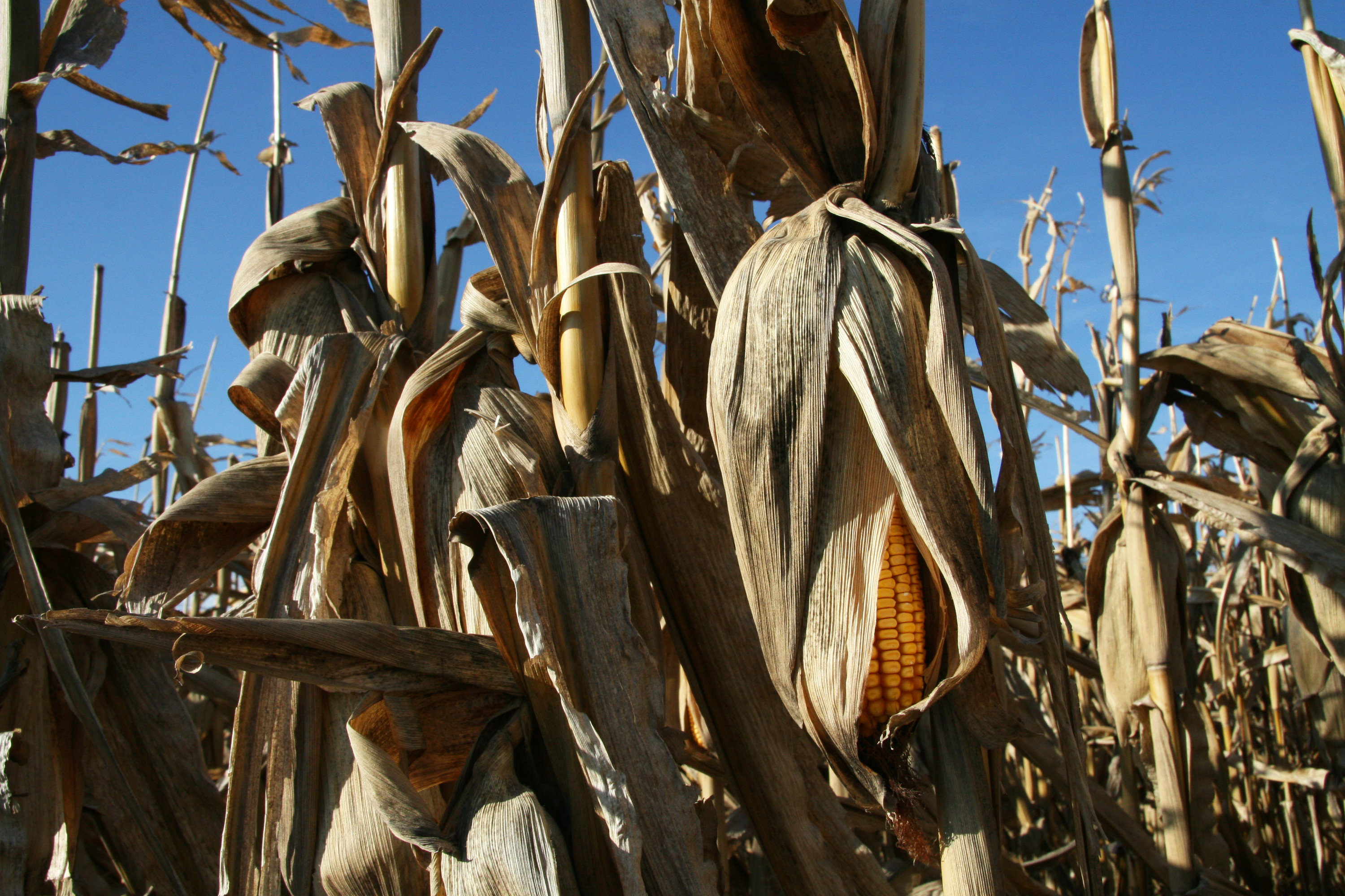 A ripe ear of corn (Zea mays) hangs in its husk in a field in Benton County, Indiana. Photo looks north from along County Road 400 North near the small settlement of Lochiel.